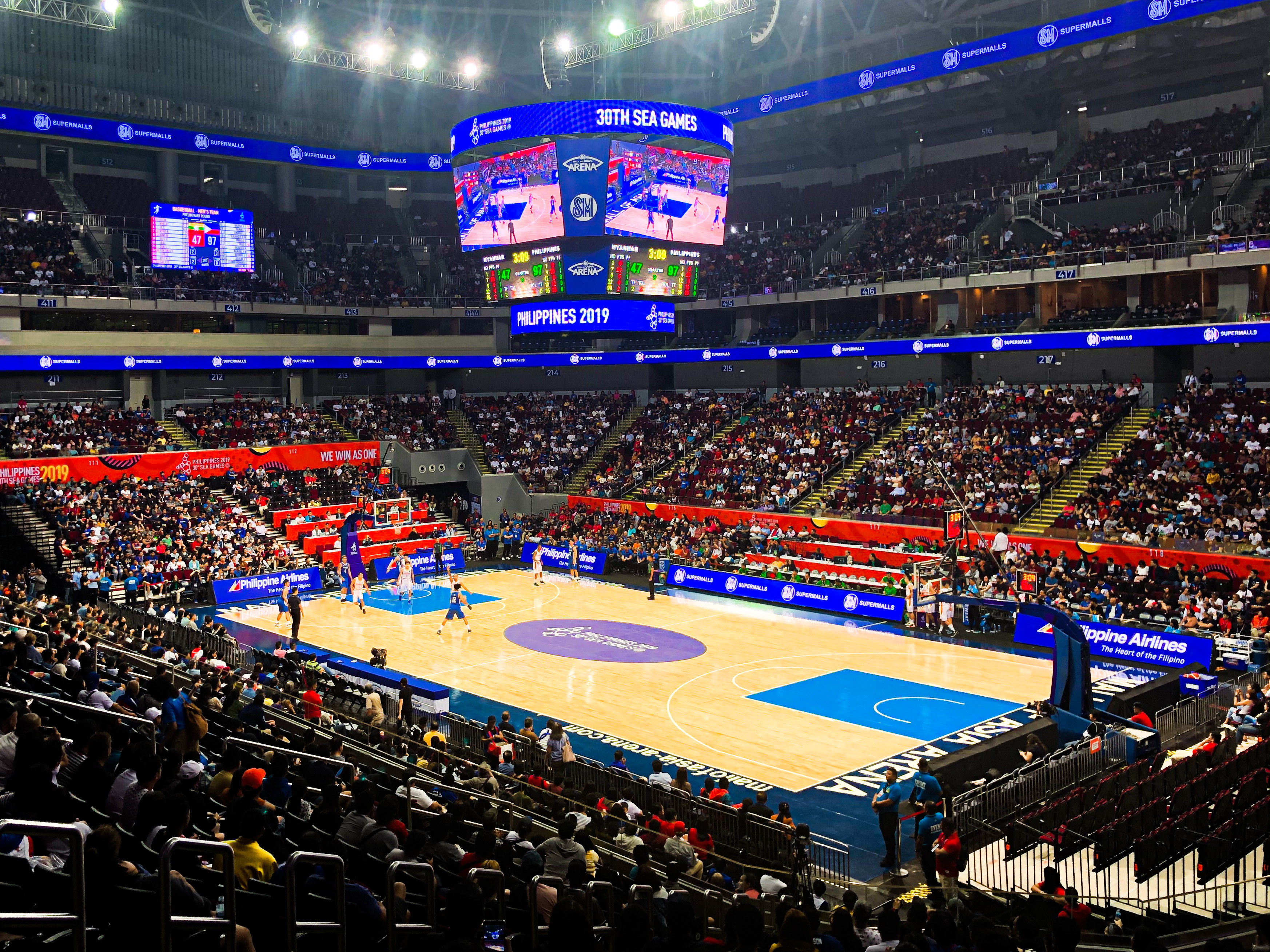 The Mall of Asia Arena during the 2019 Southeast Asian Games 5x5 Basketball Tournament.